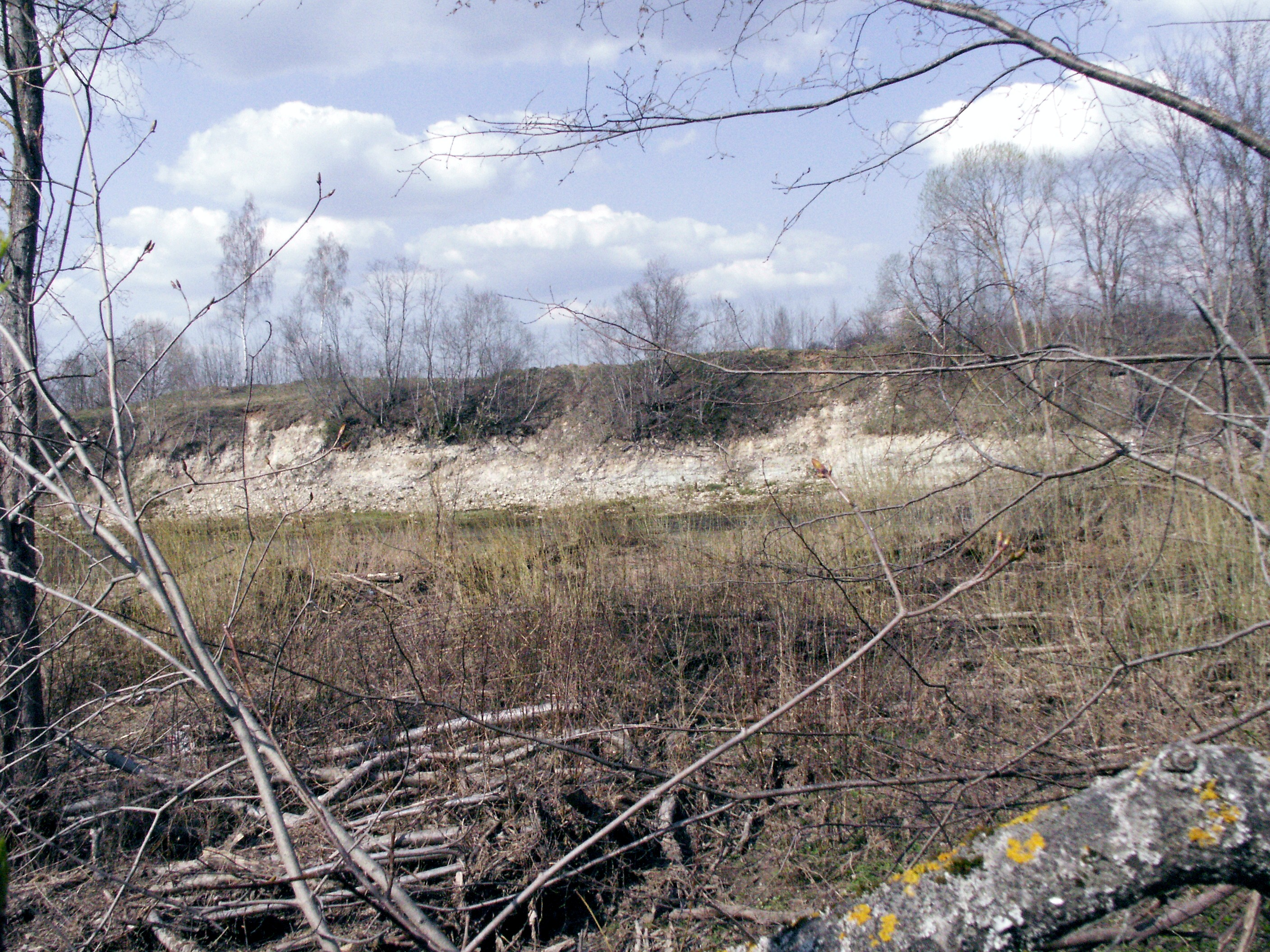 Tabokinė, Nemunėlis, Biržai district, Lithuania